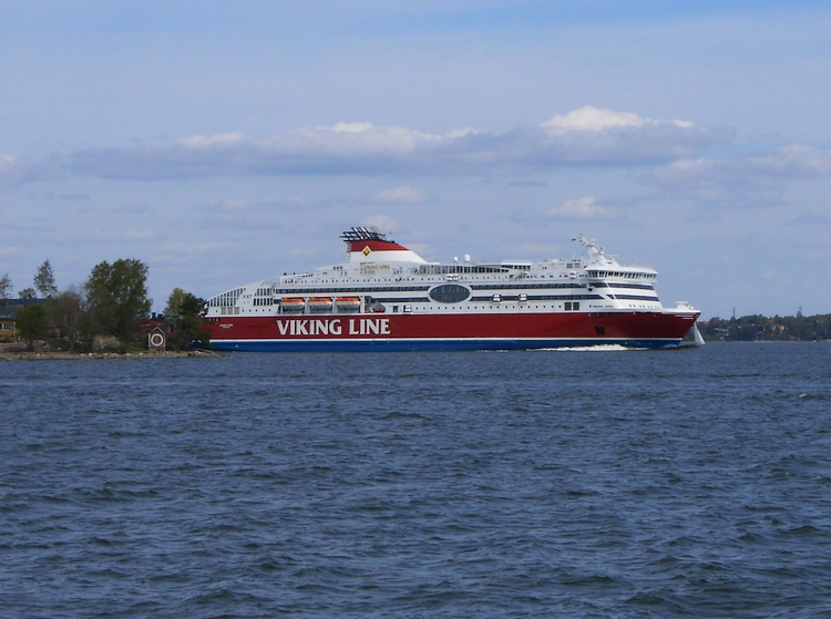 M/S "Viking XPRS" (Engine output 40000 kW) ca 10 minutes after departure from Helsinki Harbor, direction Tallinn, Estonia